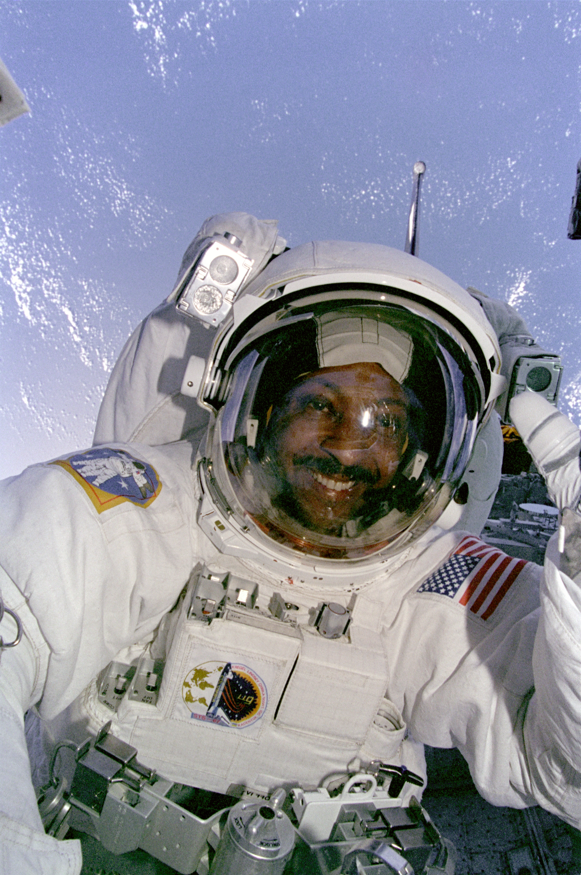 Mission Specialist Winston Scott as seen from inside orbiter Columbia conducts the second Extravehicular Activity (EVA) on mission STS-87.